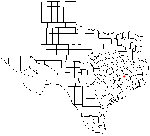 Dobbin, Texas location map; created with the GIMP. Made by User:Acntx.